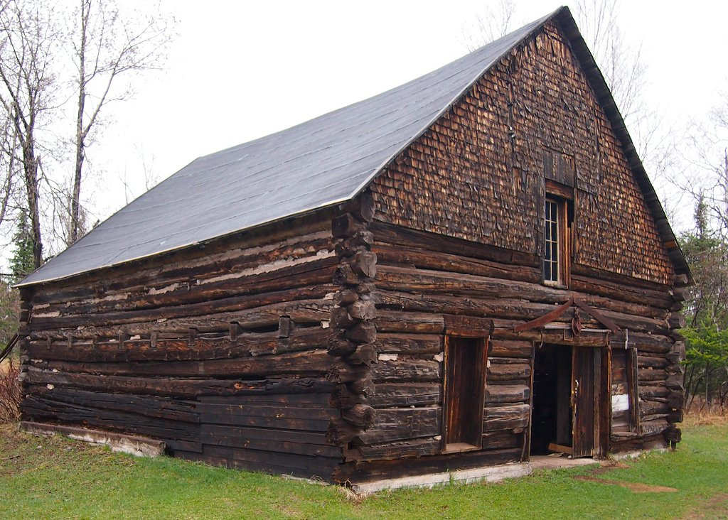 Schroeder Lumber Company Bunkhouse, Lamb's Resort, Schroeder, Minnesota, USA. Taken on private property with permission.